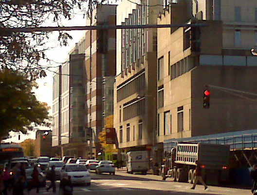 The Joslin Diabetes Center in Boston, MA, United States, the world’s largest diabetes research center, diabetes clinic, and provider of diabetes education